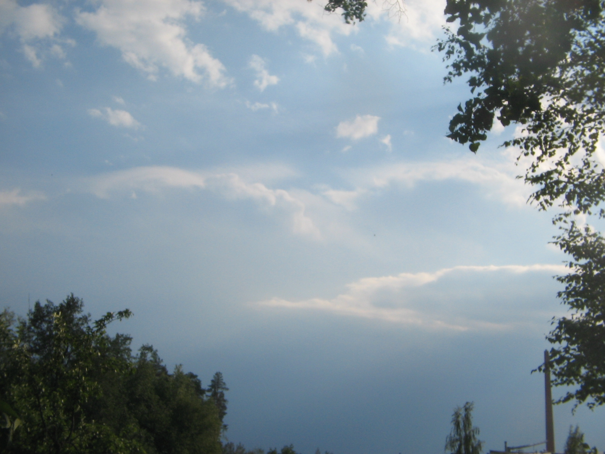 Weather/Cloud types/Cumulonimbus (thunder/showercloud), near. Upper part of cloud si fibrous, mush or anvil-like. Lower part of cloud is dark, because cloud is so thick.